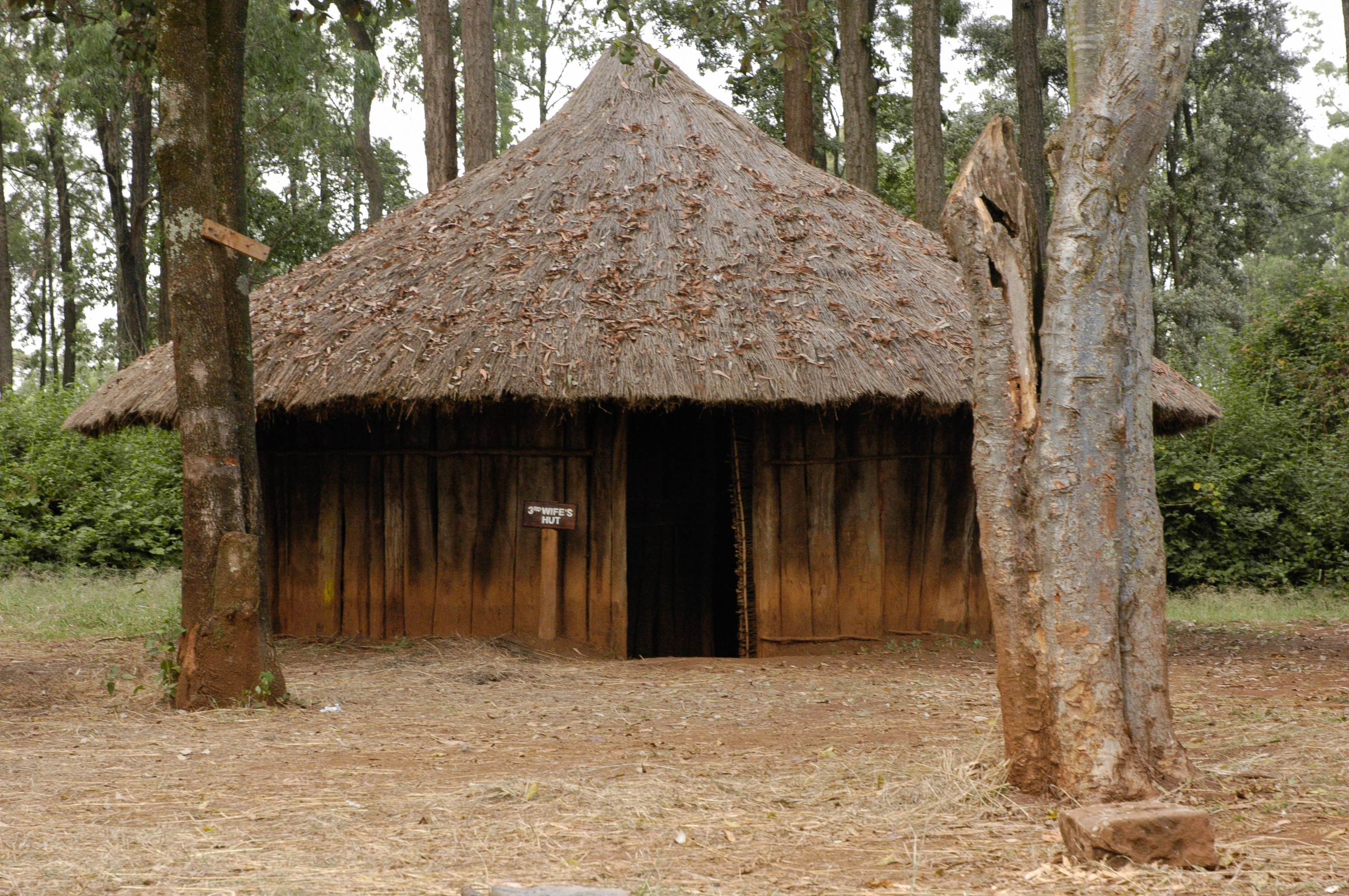 3rd wife`s hut in Kikuyu village at Bomas of Kenya near Nairobi